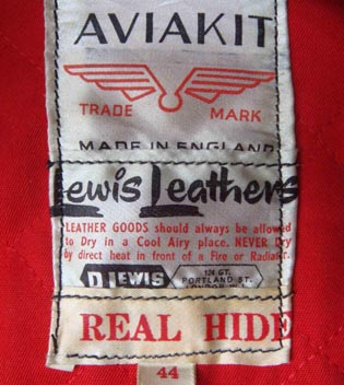 To replace high resolution file 1960s Aviakit label.jpg